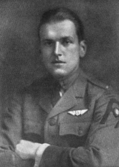 Portrait of Charles R. Codman from New England Aviators 1914-1918, Volume 1, 1919, page 137